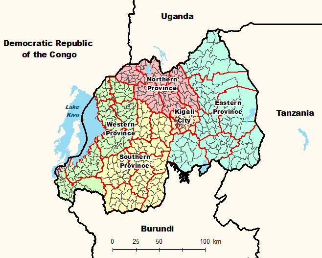 The sectors of Rwanda as of 2006. Shown with the district borders in red and the provinces by colors.